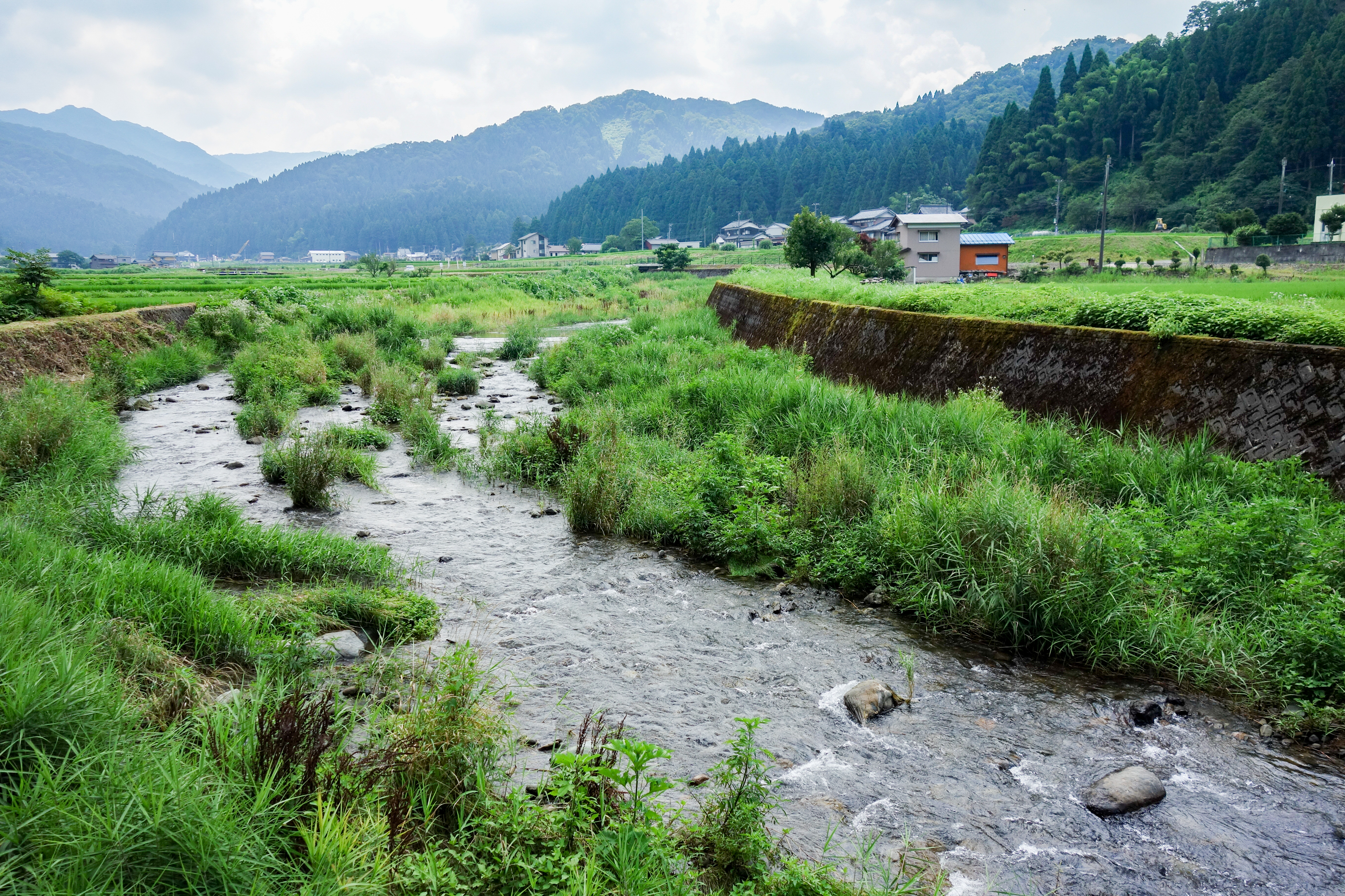 Eiheiji River in Ichinono, Eiheiji-cho, Fukui, Japan